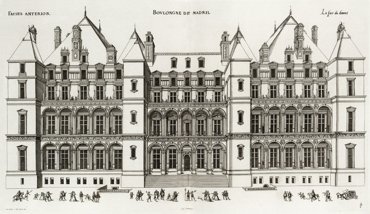 The château de Madrid in Boulogne-Billancourt, copper engraving